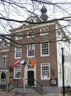 The old cityhall of Buren.